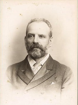 1890 Thomas Roe Liberal Derby